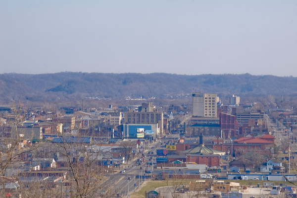 Downtown Ashland